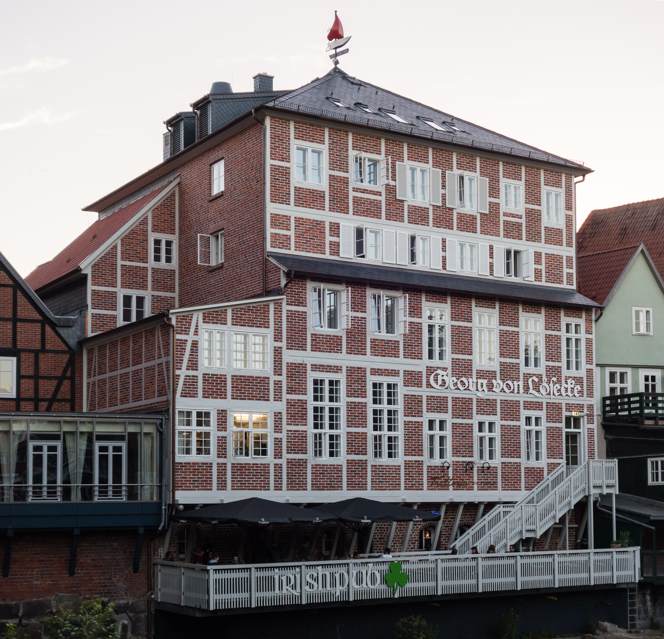 This is a photograph of an architectural monument. It is on the list of cultural monuments of Lüneburg Designation: Lösecke-building Construction time: At the beginning of the 16th century Description: Multilevel half-timbered building on Lüneburg Stintmarkt. According to historical model rebuilt after the fire on the 2nd December, 2013. Place: Lüneburg, Lüneburg, Lower Saxony, Germany Location: Am Stintmarkt House number: 2